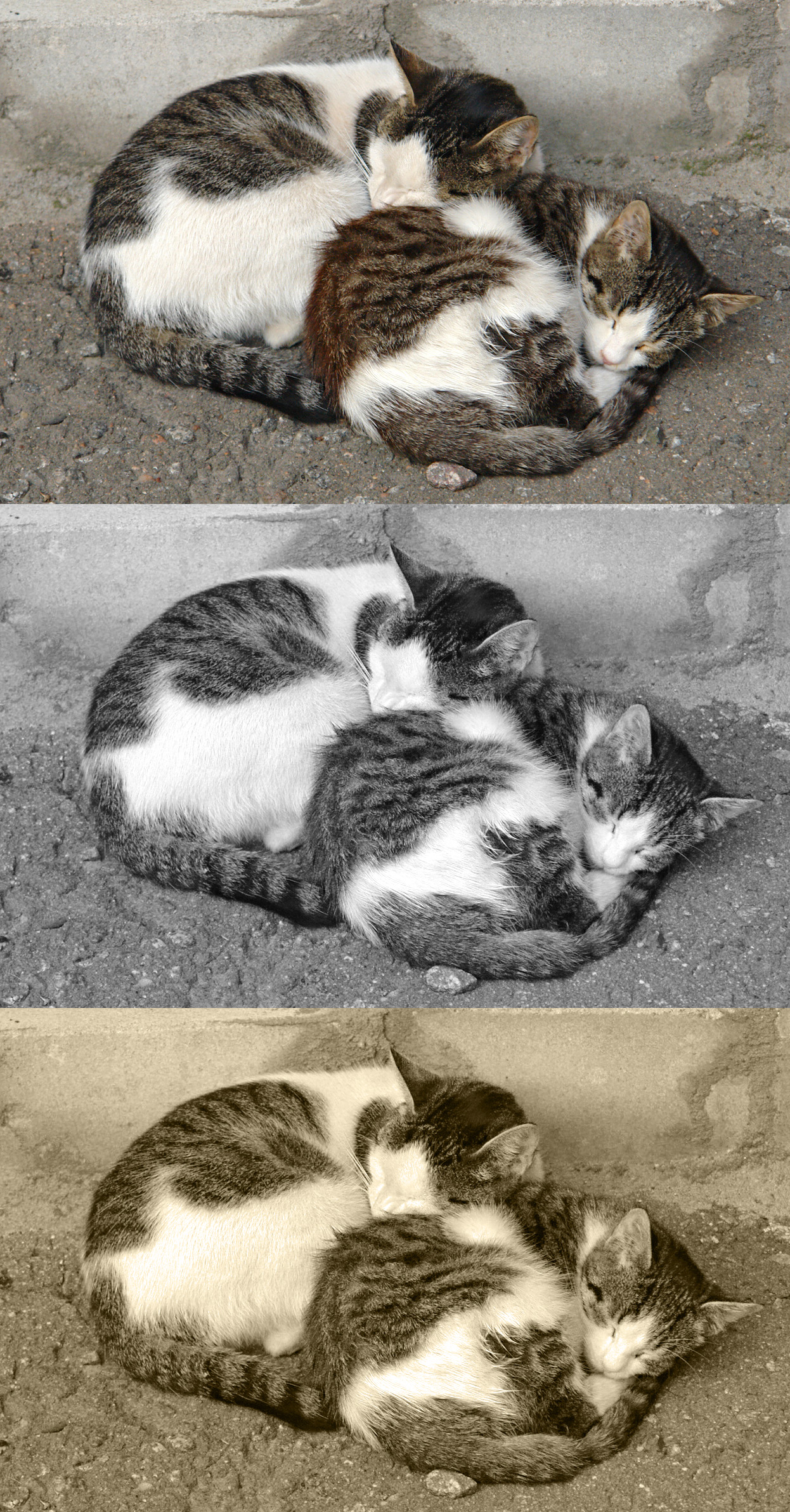 Sepia sample (from my own photo)